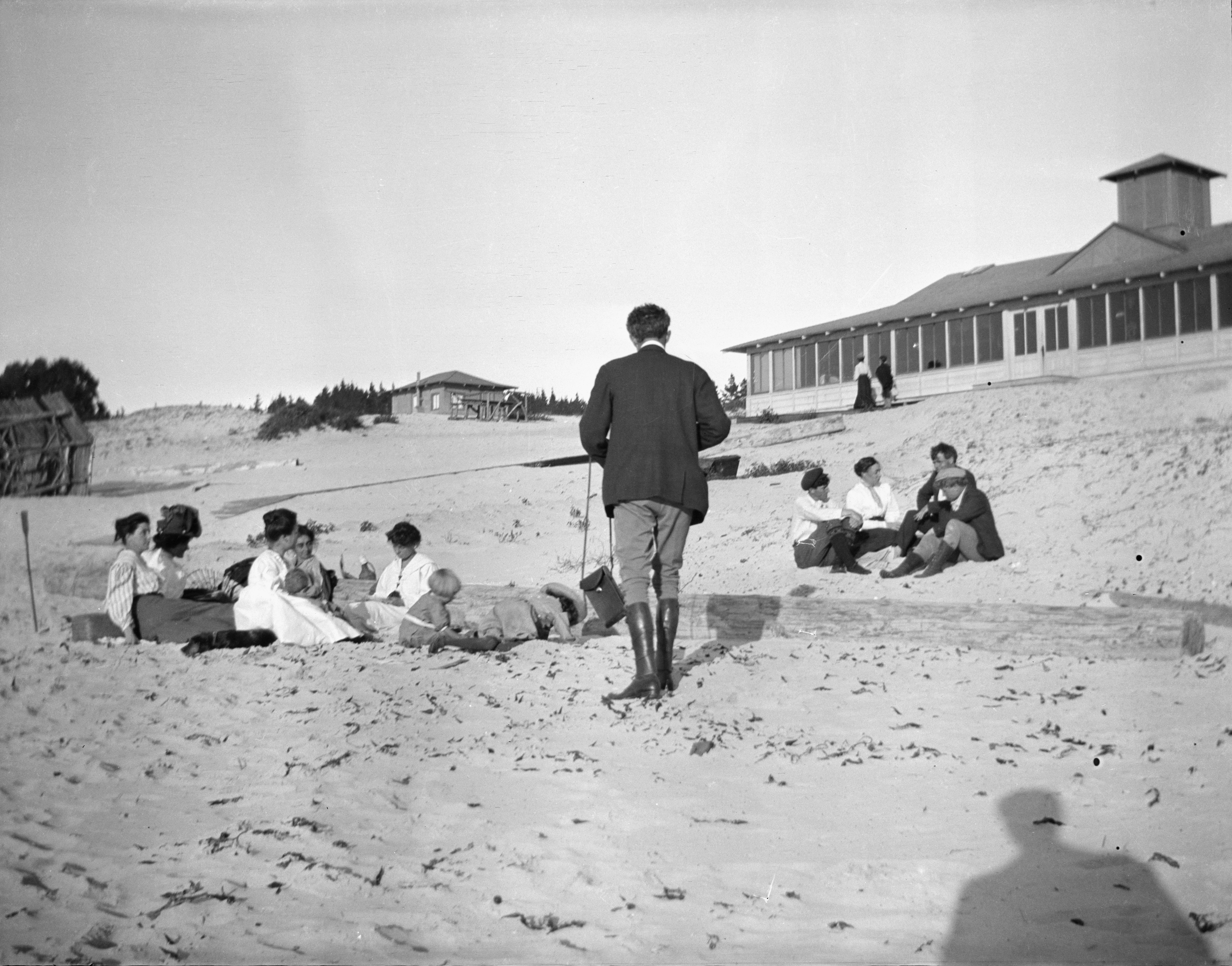 The image is a rare look at the photographer creating the image. Here we see historic photographer Arnold Genthe, photographing George Sterling, Mary Austin, Jack London and Jimmie Hopper on the beach at Carmel